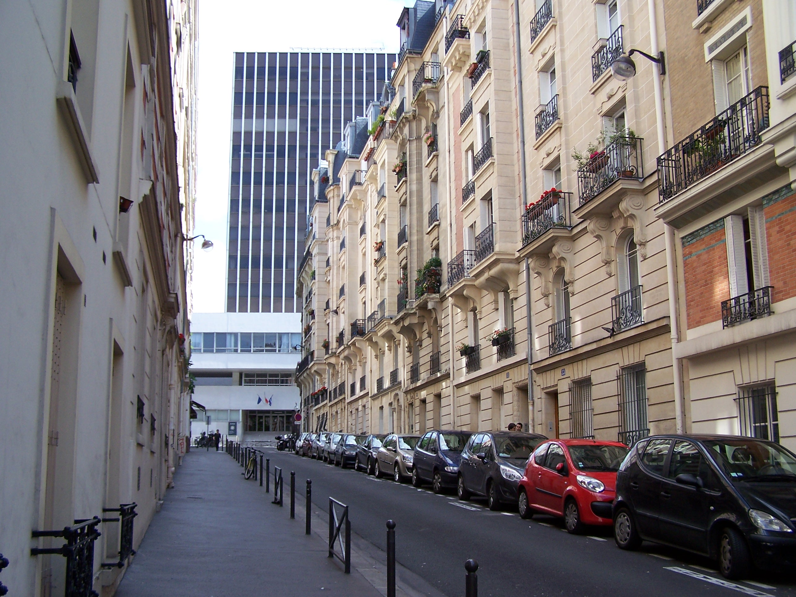 Vue de la rue Oudry, à Paris